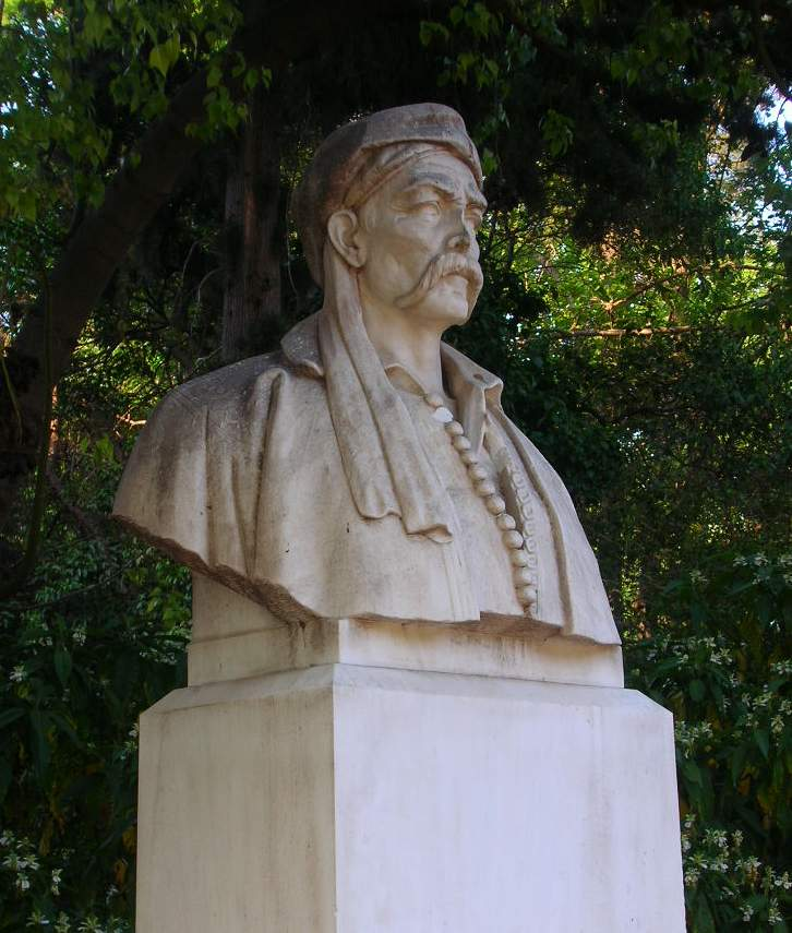 monument of Nikitaras in Athens, own photo, Gepsimos 15:14, 14 May 2006 (UTC)